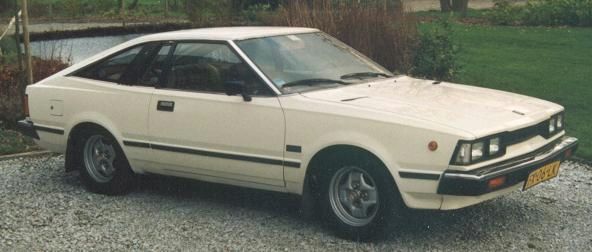 1983 Nissan/Datsun 200SX